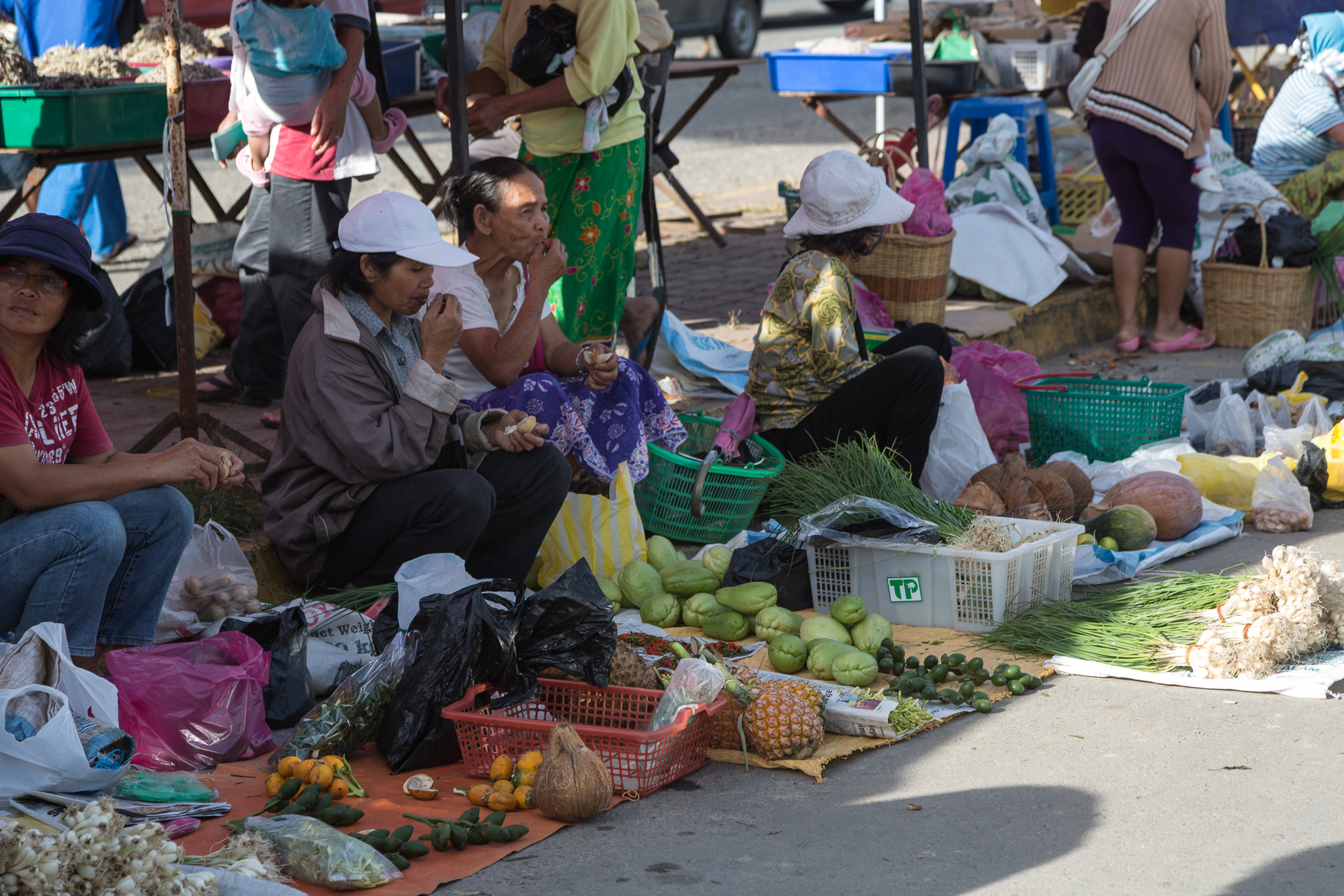 Kg. Nabalu, Ranau, Sabah: Market in Pekan Nabalu